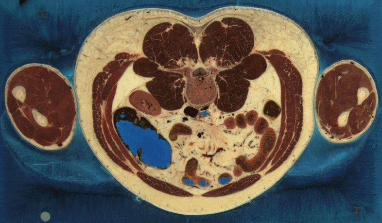 Cryosection through the abdomen of a human male, including the upper extremities